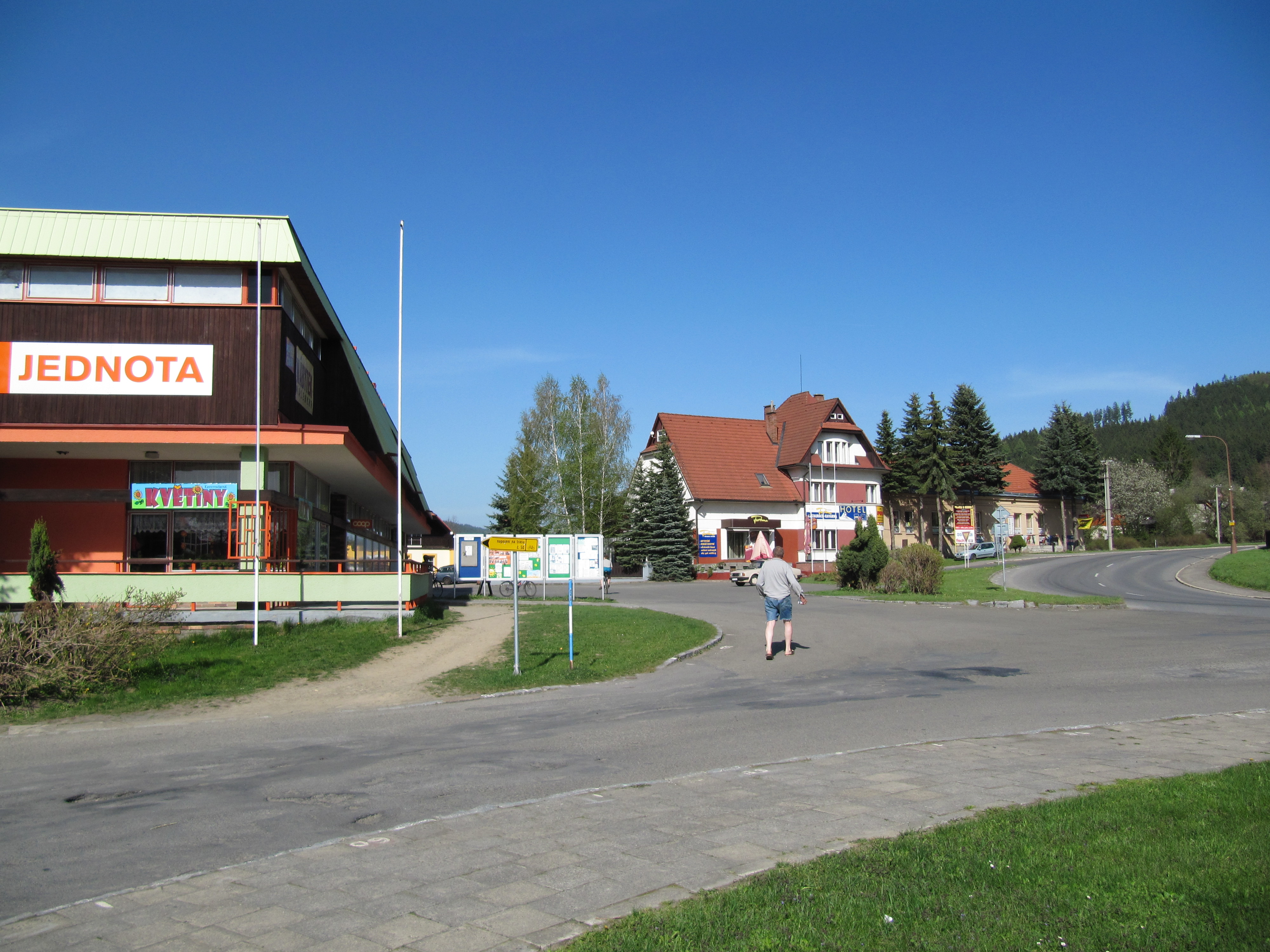 Halenkov, Vsetín District, Czech Republic.